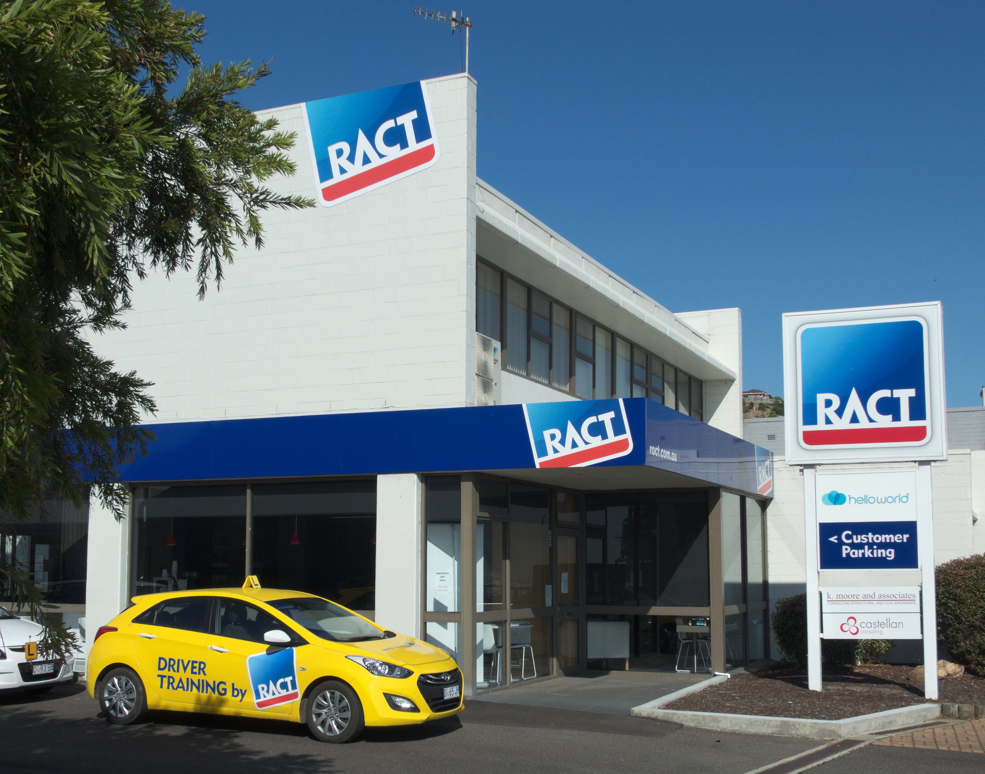 Royal Automobile Club of Tasmania (RACT) office at 24 North Terrace, Burnie.